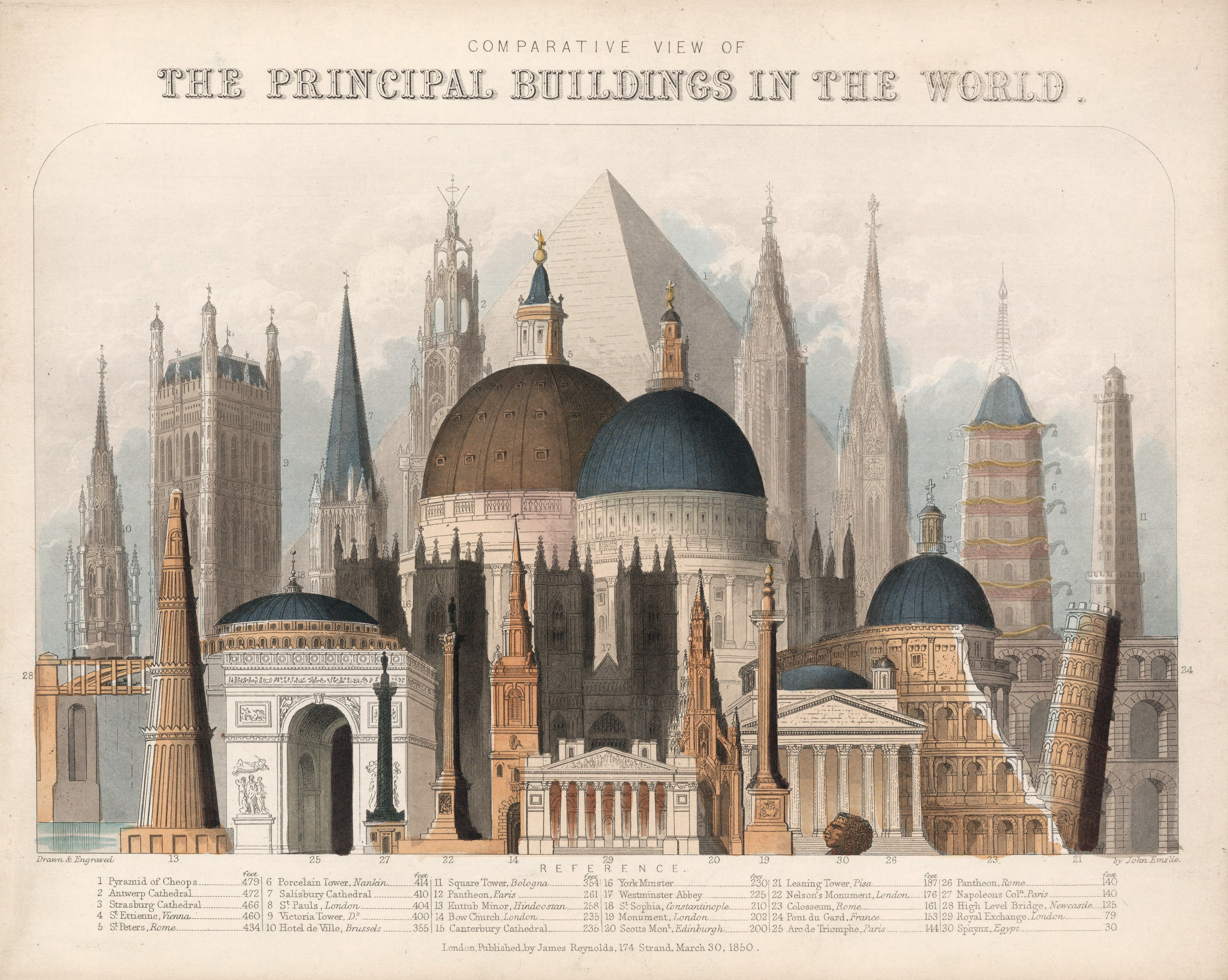 James Reynolds & John Emslie, Comparative view of the principal buildings in the world